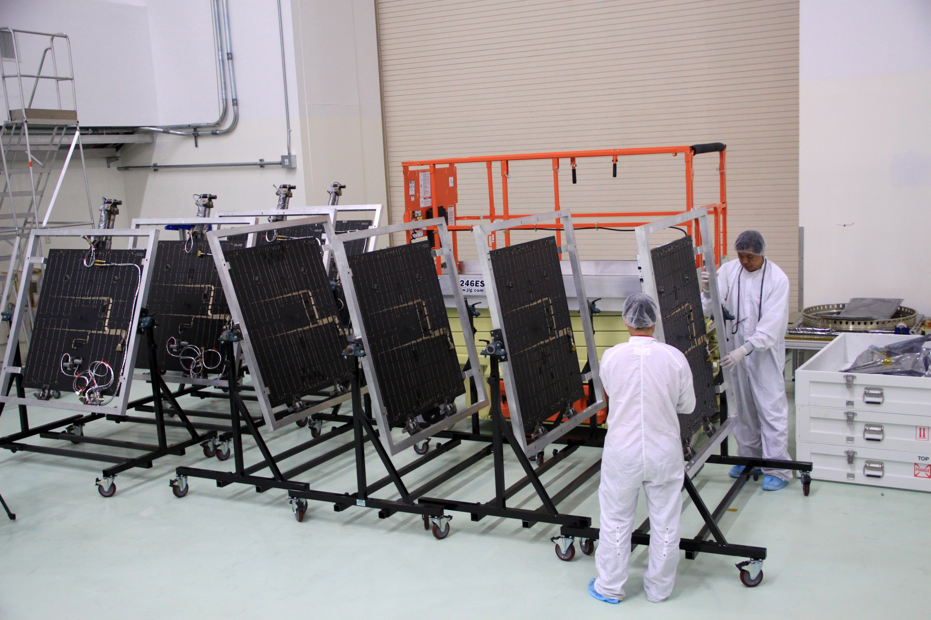 CAPE CANAVERAL, Fla. – In the clean room high bay at the Astrotech payload processing facility near NASA’s Kennedy Space Center in Florida, Applied Physics Laboratory technicians line up the holding fixtures containing the solar arrays for NASA's Radiation Belt Storm Probes A and B. The Radiation Belt Storm Probes, or RBSP, mission will help us understand the sun’s influence on Earth and near-Earth space by studying the Earth’s radiation belts on various scales of space and time. RBSP instruments will provide the measurements needed to characterize and quantify the plasma processes that produce very energetic ions and relativistic electrons. The mission is part of NASA’s broader Living With a Star Program that was conceived to explore fundamental processes that operate throughout the solar system, particularly those that generate hazardous space weather effects in the vicinity of Earth and phenomena that could impact solar system exploration. RBSP will begin its mission of exploration of Earth's Van Allen radiation belts and the extremes of space weather after launch. Launch aboard a United Launch Alliance Atlas V rocket is scheduled for August 23. For more information, visit